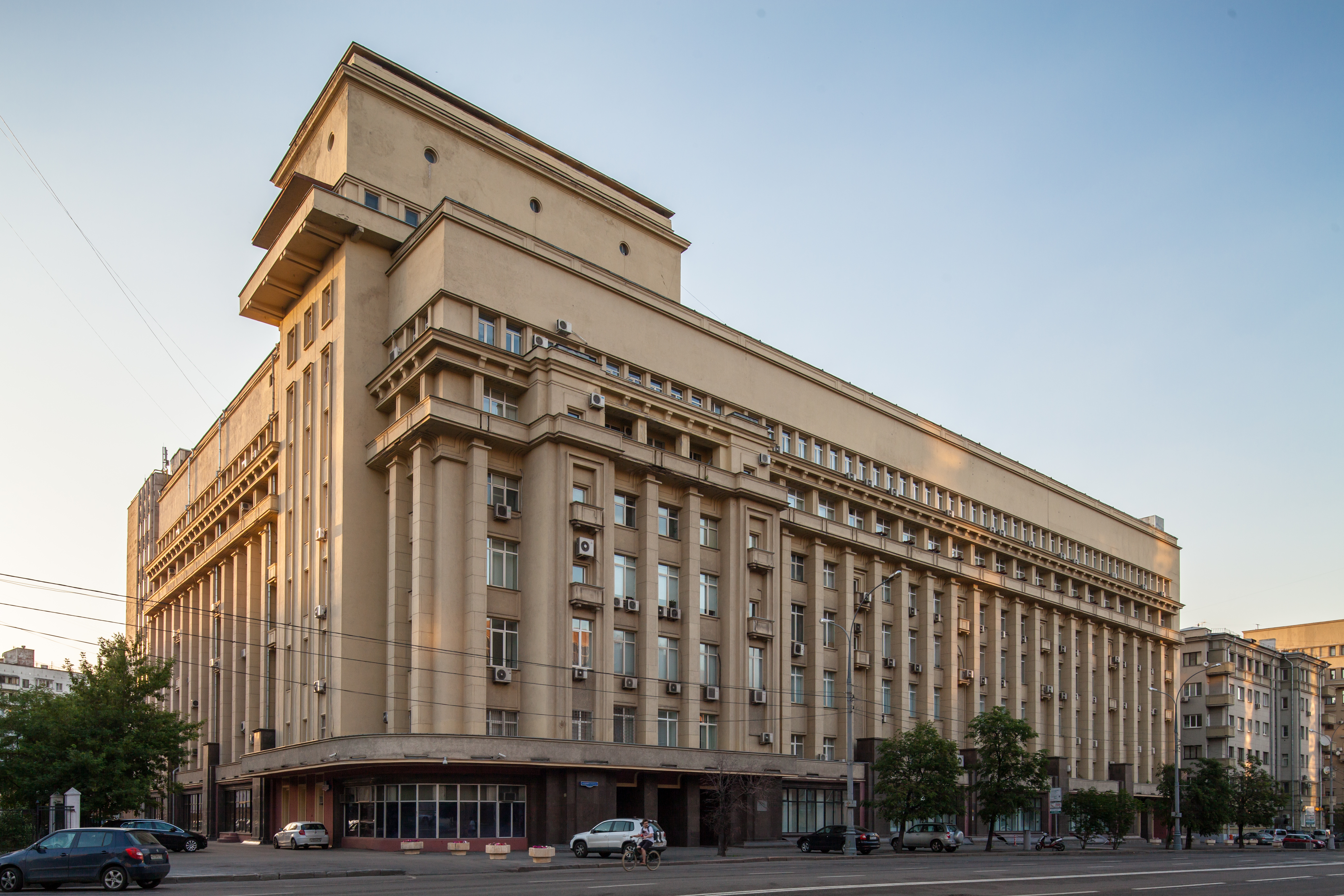 Комплекс зданий Министерства авиационной промышленности 1933-1934 Архитектор: Д.Ф. Фридман The complex of buildings of the People's Commissariat of Aviation Industry (Ministry of Aviation Industry) 1933-1934 Architect: D.F. Fridman